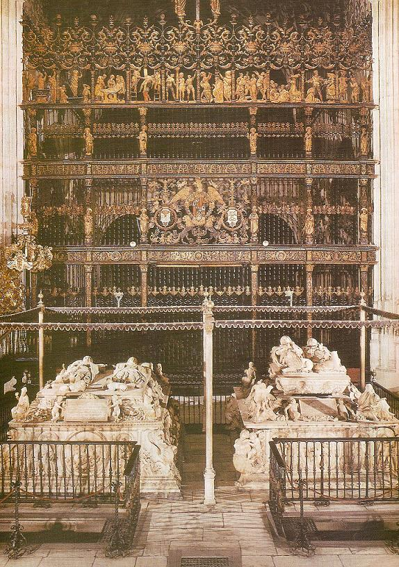 Cenotaph of Catolics Kings (left) and of Joan the Mad and her husband (right)